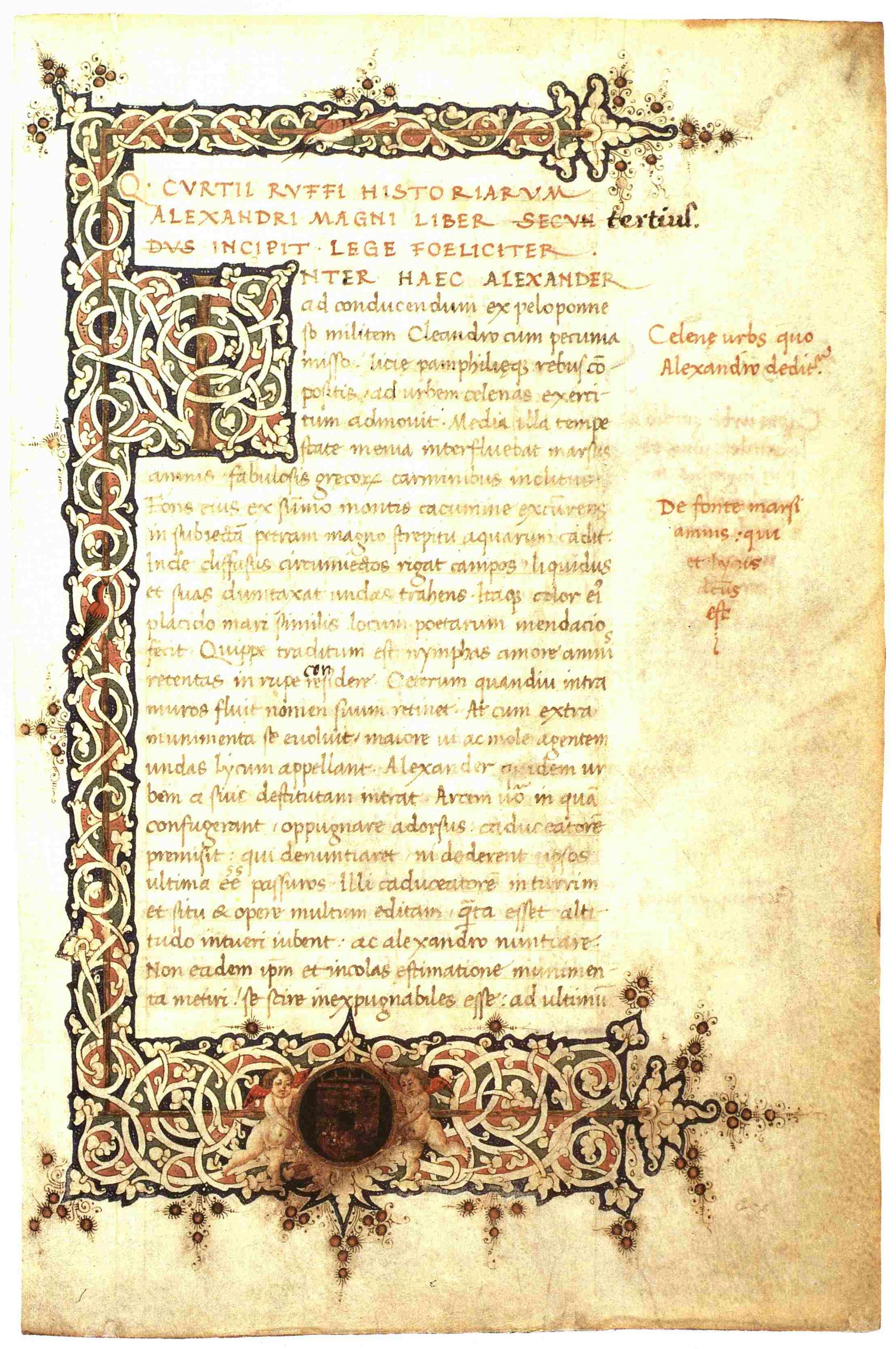 A page of the „Histories of Alexander the Great“ in the manuscript Budapest, Országos Széchényi Könyvtár, Cod. Lat. 160.